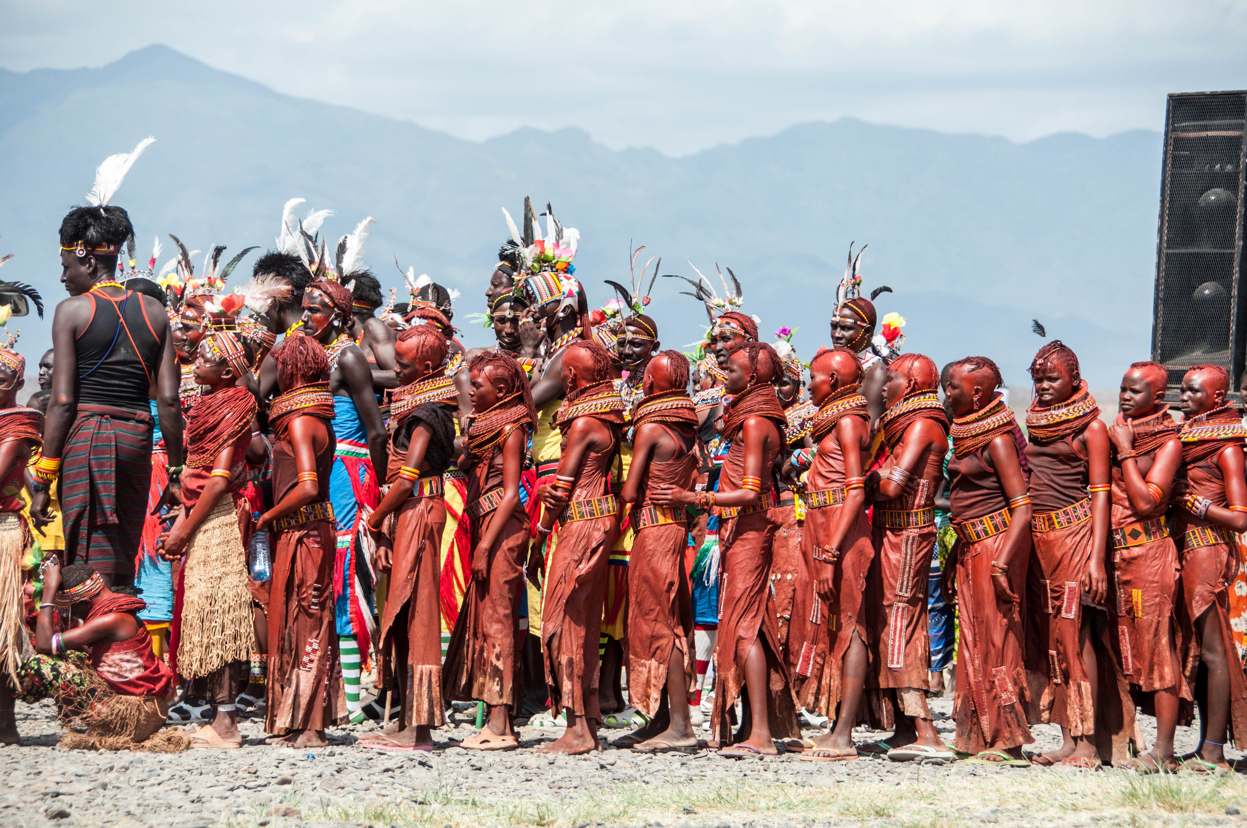 Turkana cultural Festival, Kenya 2016 This is an image from Kenya